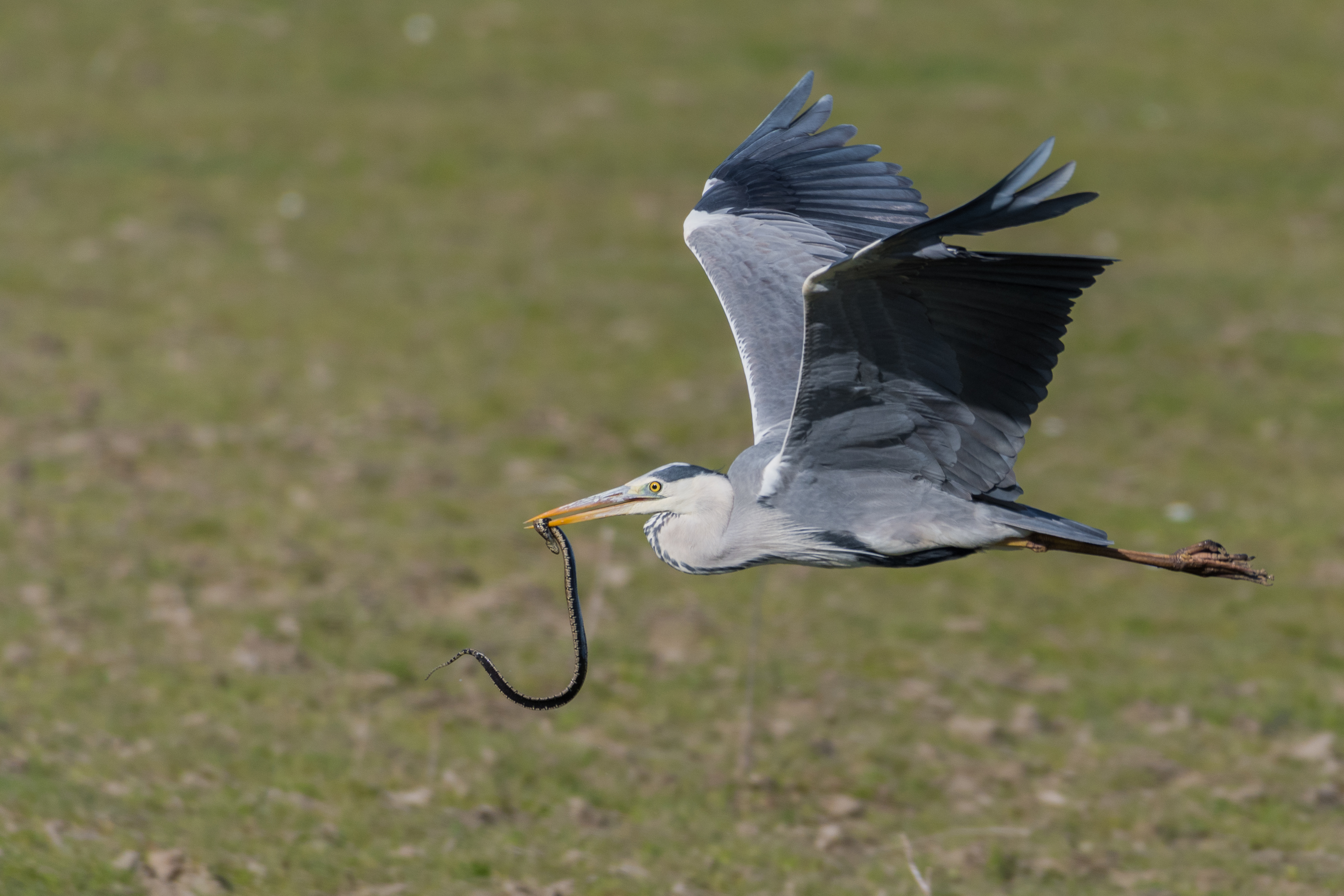 Grey Heron with Viperine water snake at Ichkeul national park